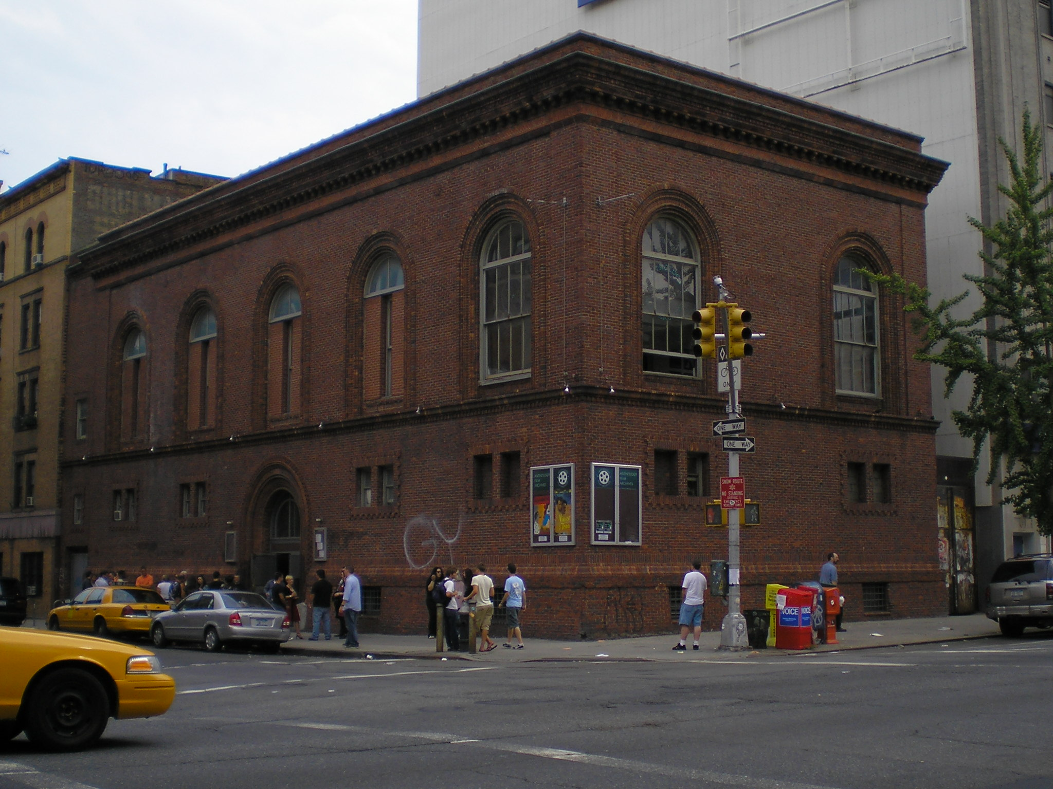 Anthology Film Archive Buidling at 32 Second Avenue at East 2nd Street in the East Village, New York City.